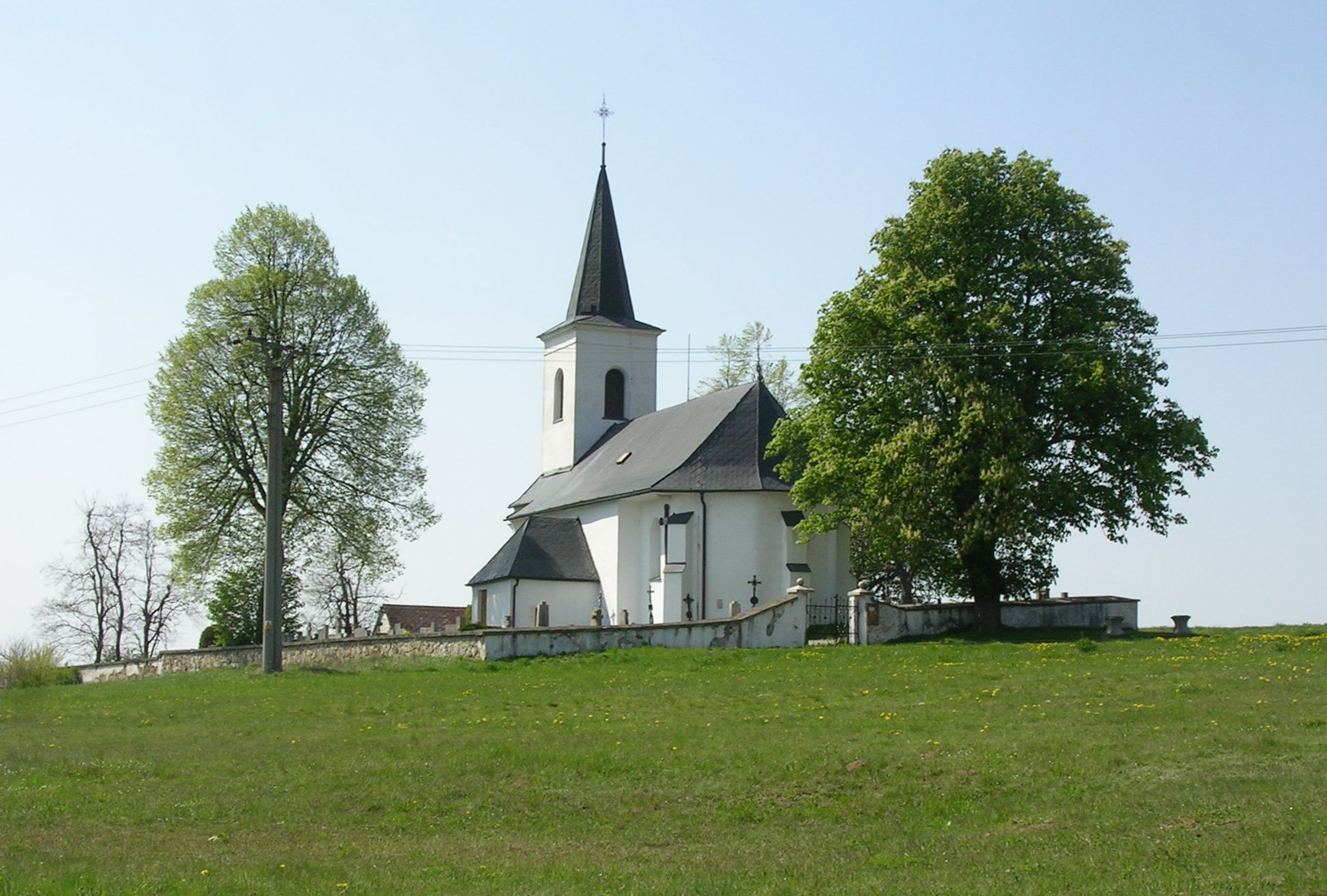 Strmilov-Palupín, South Bohemian Region, the Czech Republic.